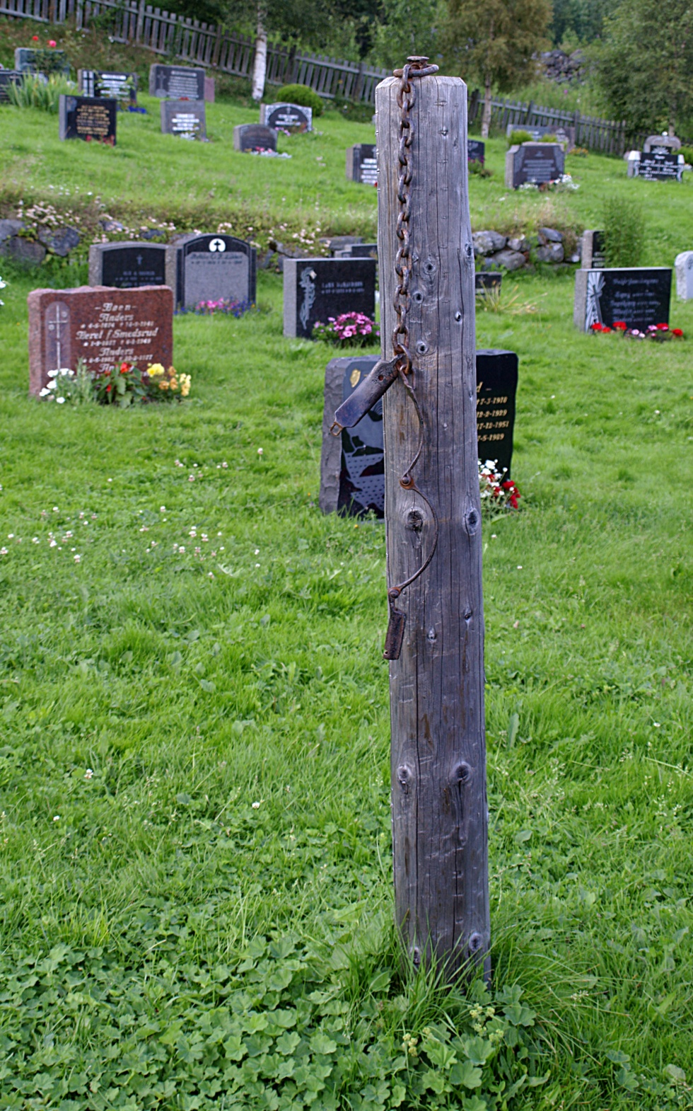 Gapestokk med halsklave/Pillory with neck clave